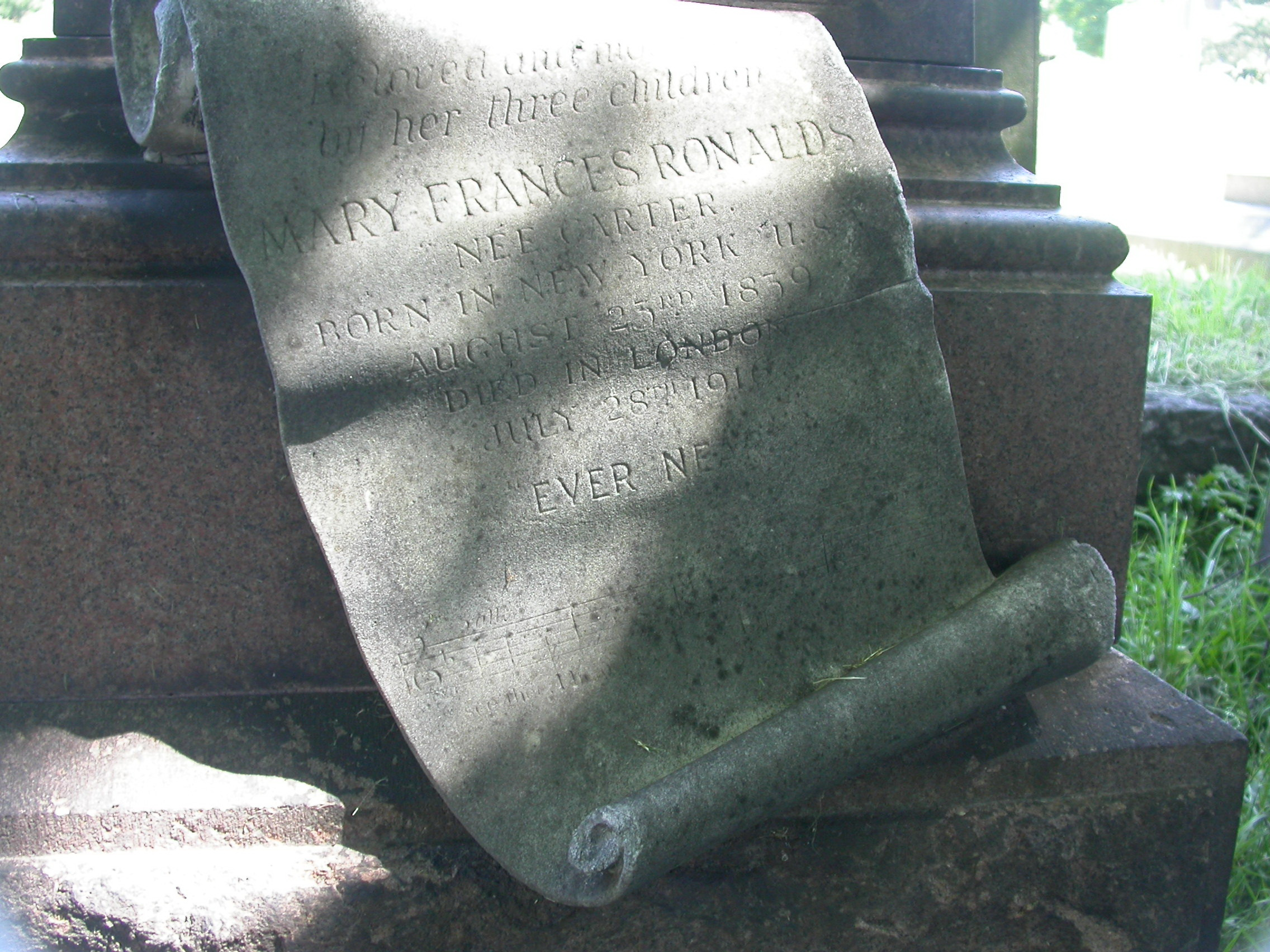 Photo of the memorial scroll at Fanny Ronalds's grave in Brompton Cemetery